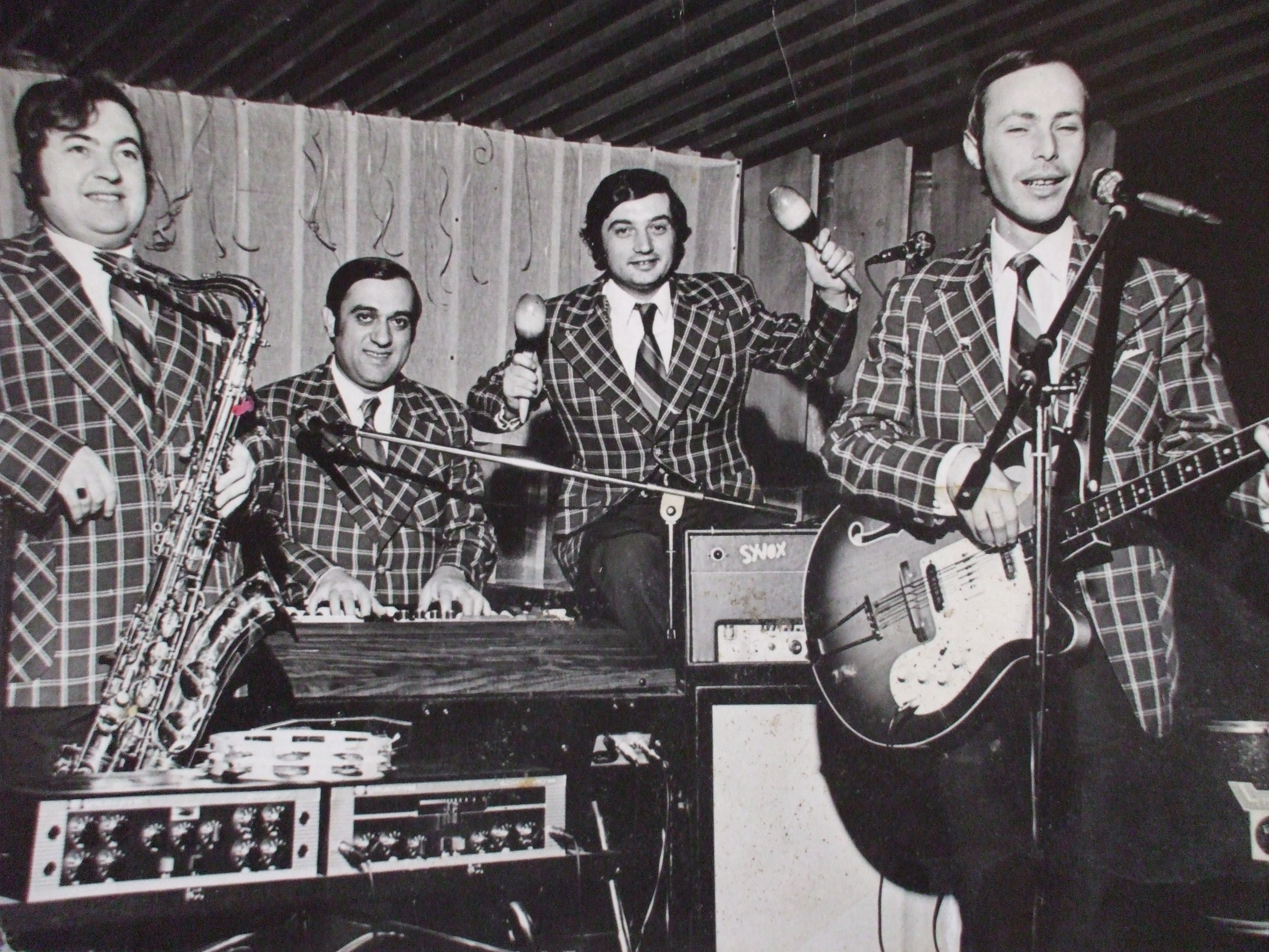 andrei colompar & band